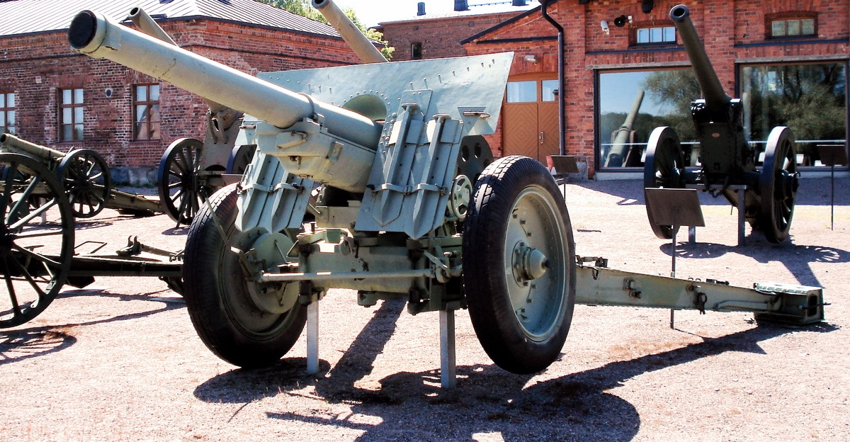 Polish wz. 29 Schneider 105 mm gun, displayed in Hämeenlinna Artillery Museum. Photo taken on June 18, 2006. Source: Photo by me, User:Balcer.